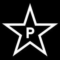 A black star with a white outline and the Greek letter R in its middle.